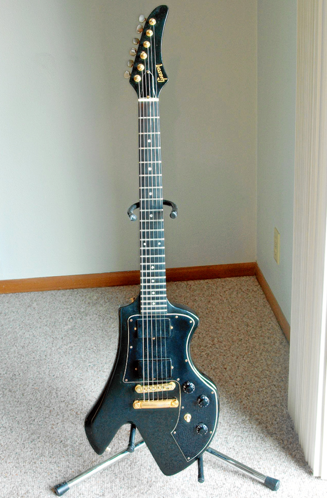 Gibson Corvus II Note that the upscale version of Corvus called "Futura" in 1980s (not to be confused with a prototype of Explore in 1957), was designed with more expensive spec; such like a setted neck instead of bolt on neck, block inlays on finger board instead of dotted marker, metal covered standard humbuckers instead of plastic covers, etc. [1] References ↑ any love for the can opener.... .